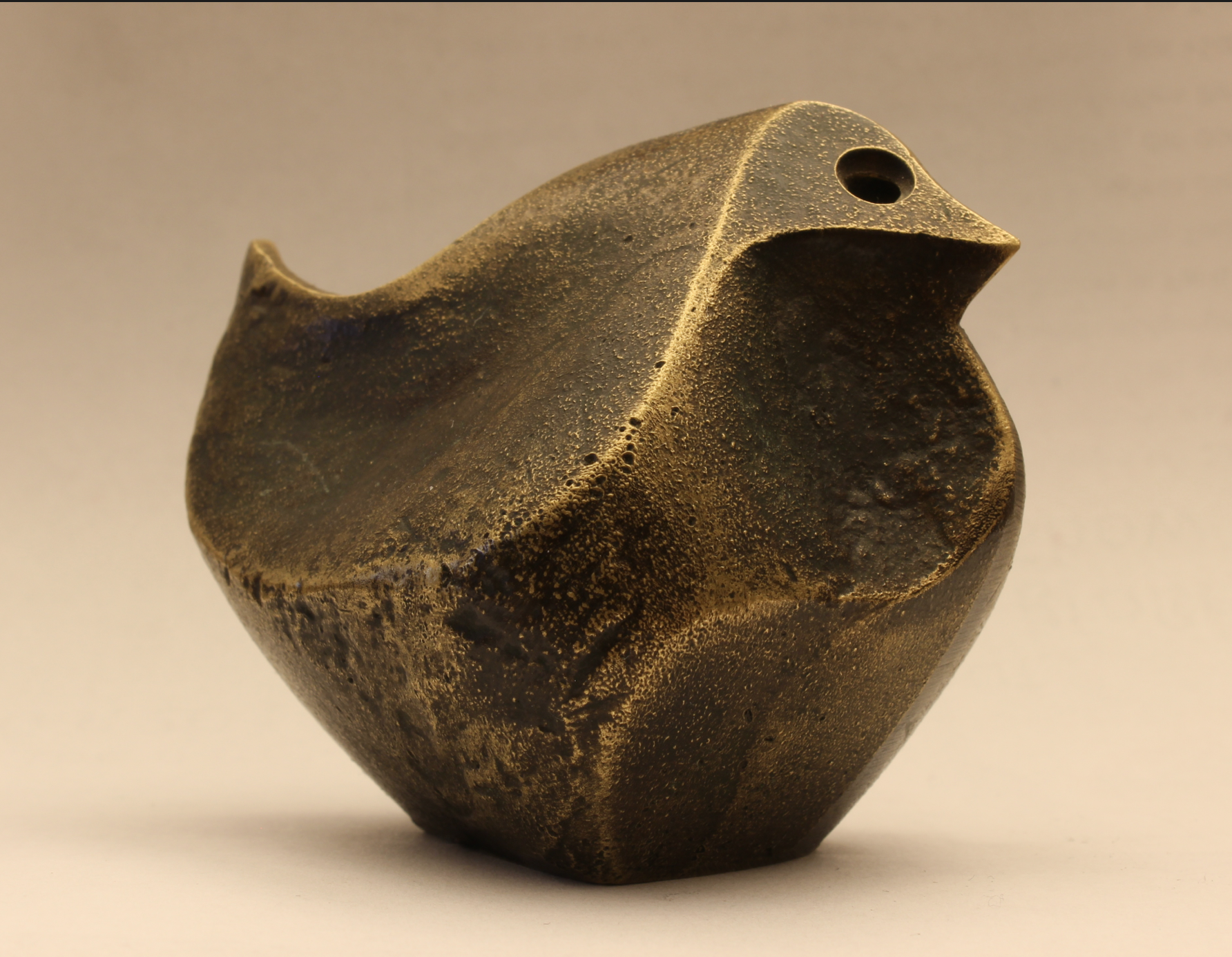 A bronze figure by Ernest Igl with engraved text: Ein Spatz von Ernest Igl für Basotherm zur Einführung des Synogil.